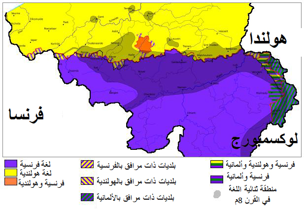 languages in Belgium in Arabic